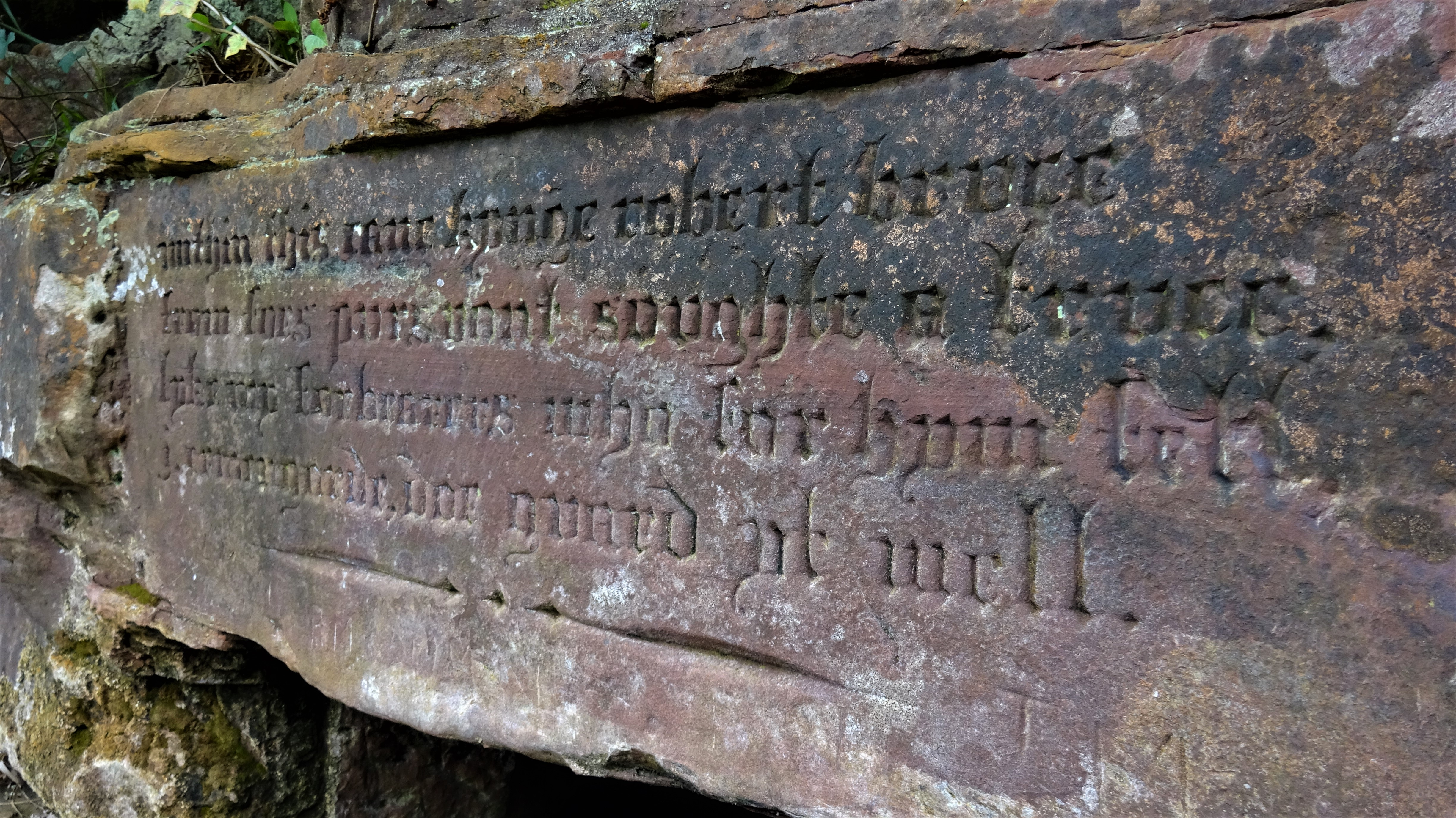 Bruce's Cave, Kirkpatrick Fleming, Dumfries & Galloway, Scotland. Entrance inscription. The cave is one site where Robert the Bruce is said to have been inspired by a spider struggling to succeed.